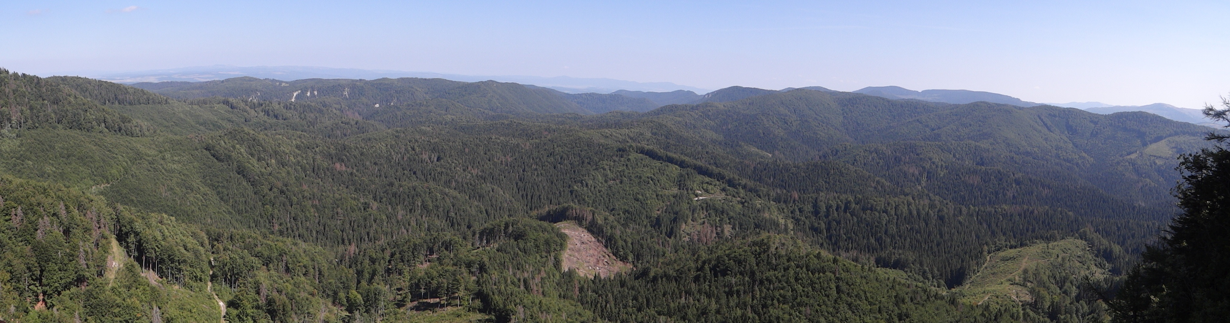 View from Havrania skala